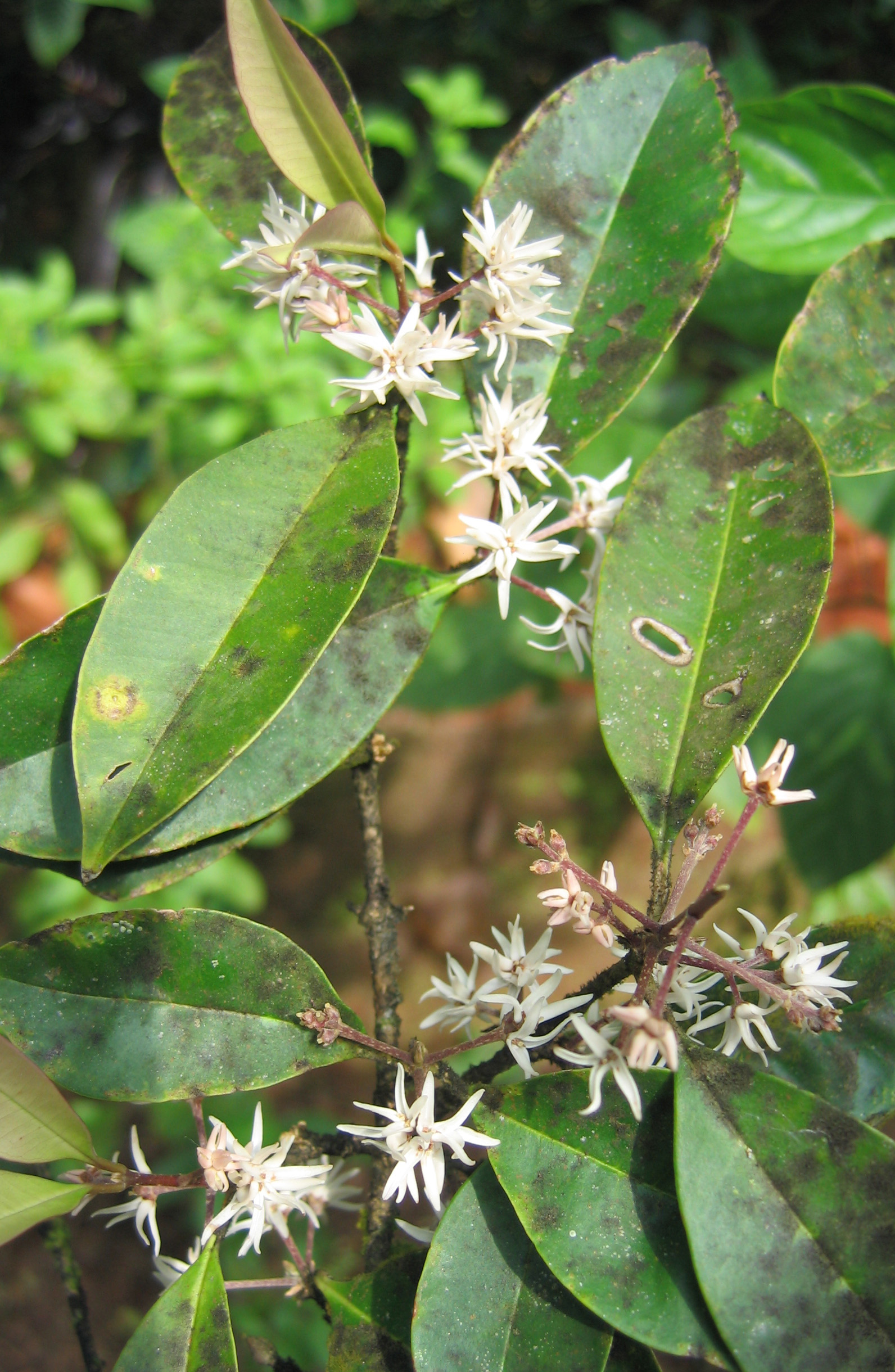 Chionanthus mala-elengi leaves and flowers